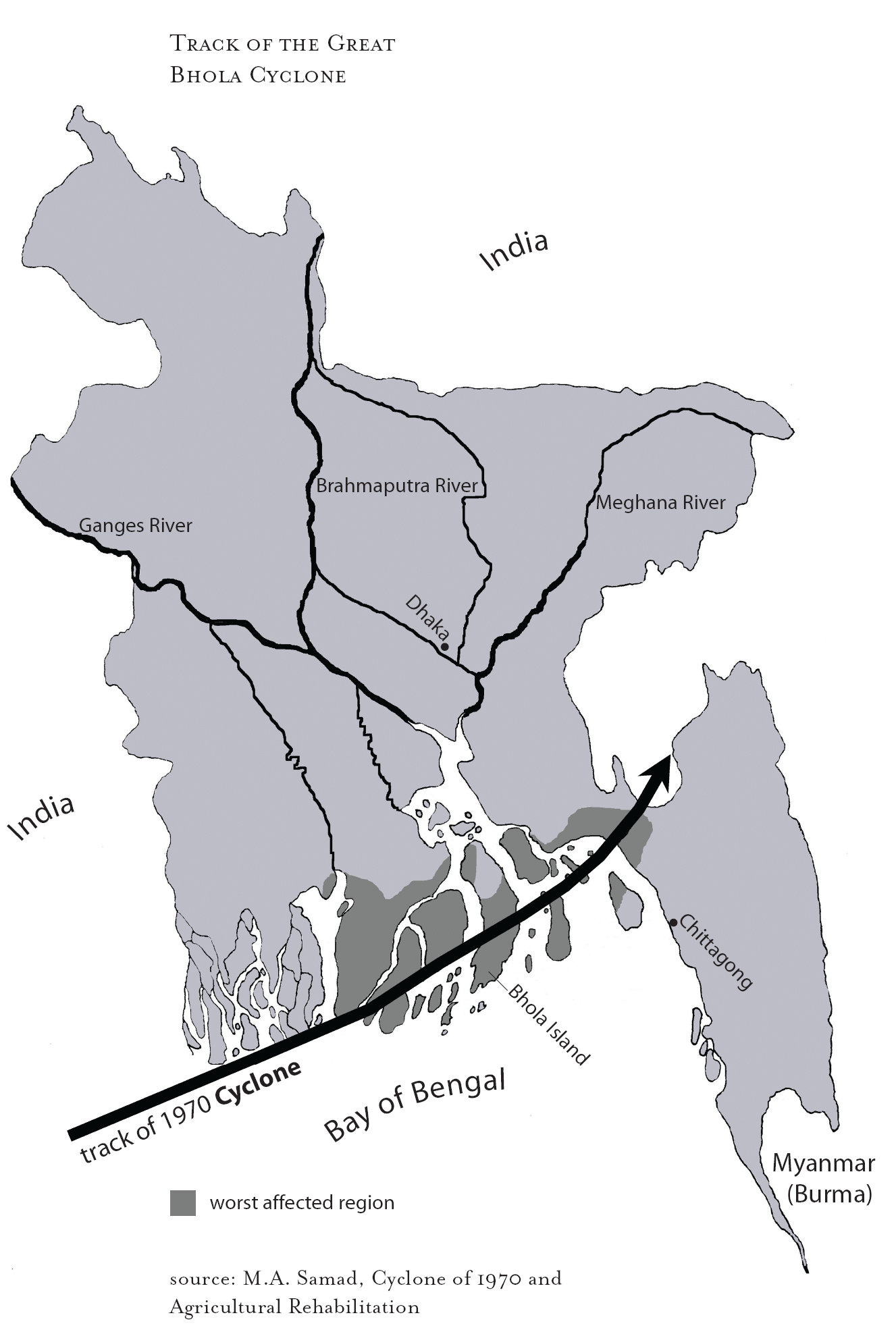 Map showing the track of the Great Bhola Cyclone of 1970 and the most strongly impacted region. Taken with permission from "Disaster and Human History," published in 2009 by McFarland Press (